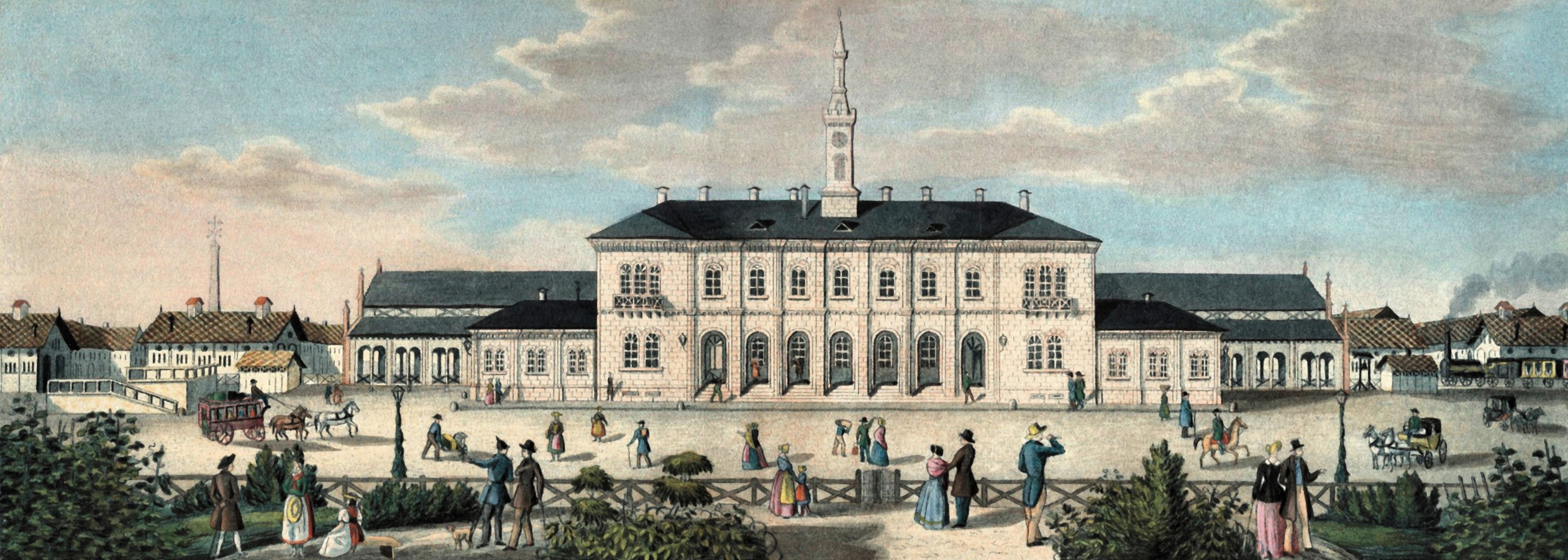 Original Freiburg Train Station. The lithography shows the just finished station around 1845